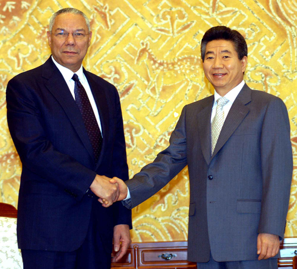 U.S. Secretary of State Colin Powell and President of the Republic of Korea, Roh Moo-Hyun, at Cheong Wa Dae (The Blue House, the Korean President's official office and residence) in Seoul.